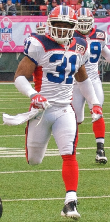 Jairus Byrd of the Buffalo Bills, against the New York Jets in 2009.